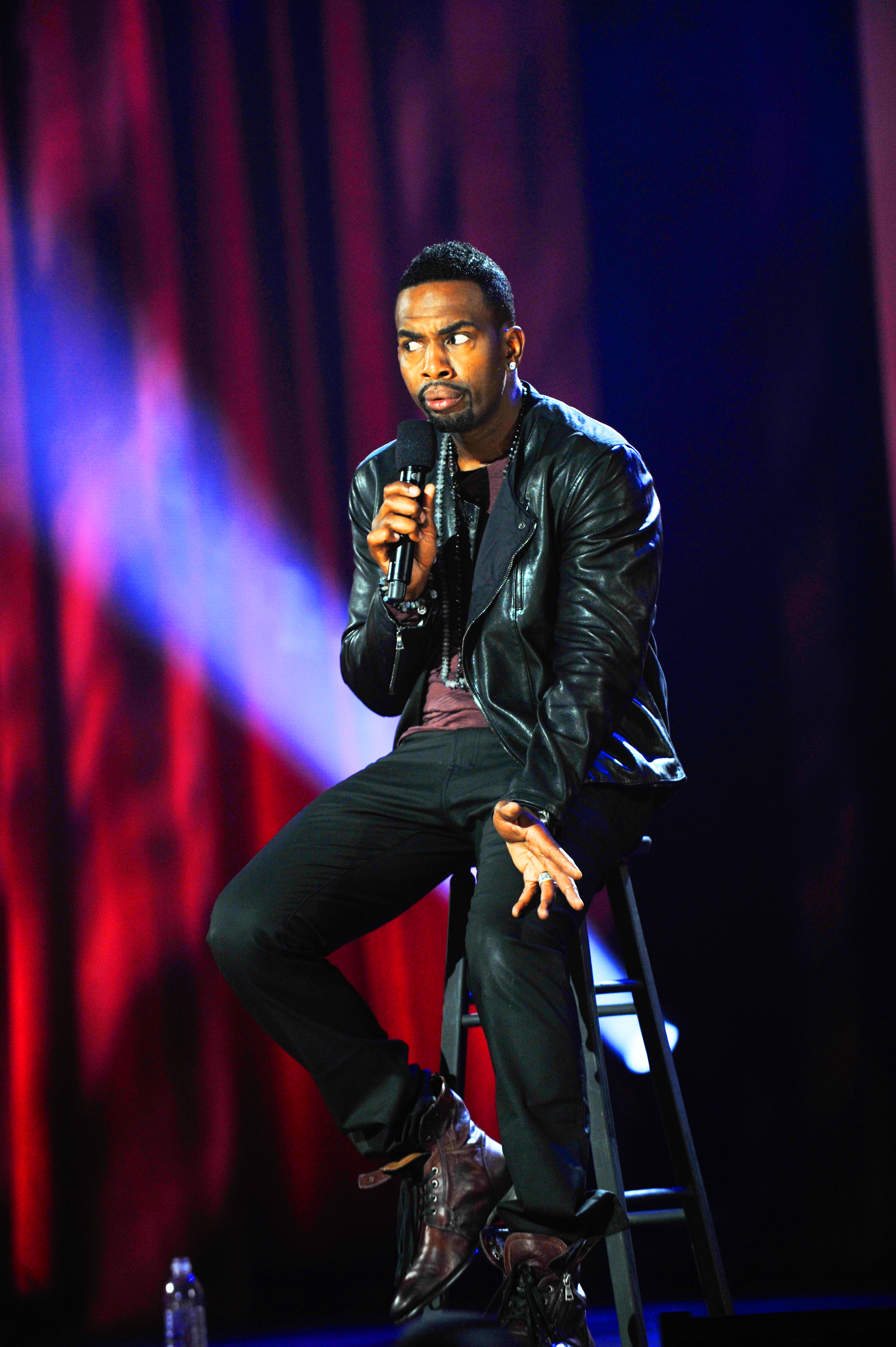 Bill Bellamy in Crazy Sexy Dirty